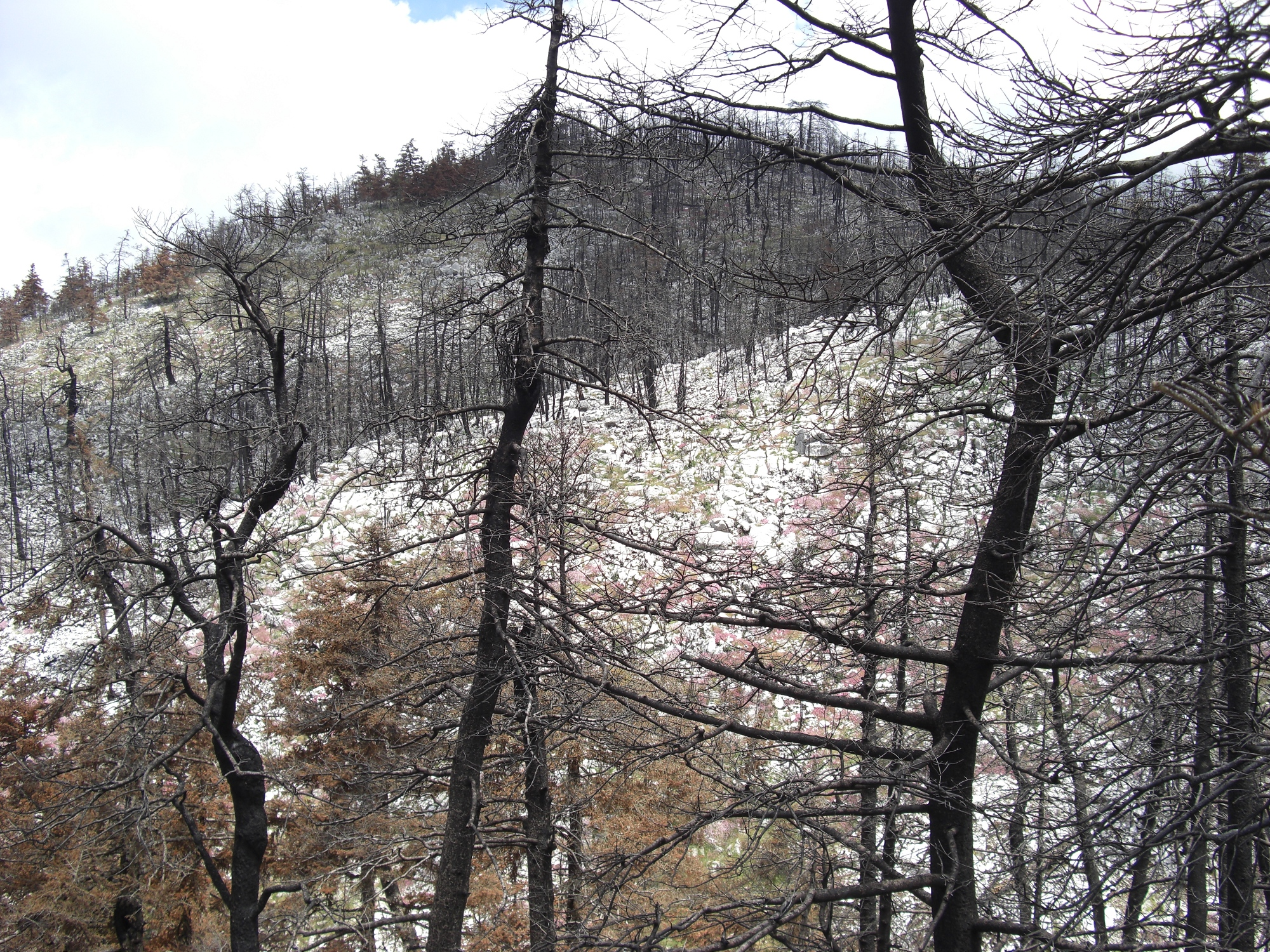 Burned down forest at the western slopes of Taygetos near Kalamata in Greece.